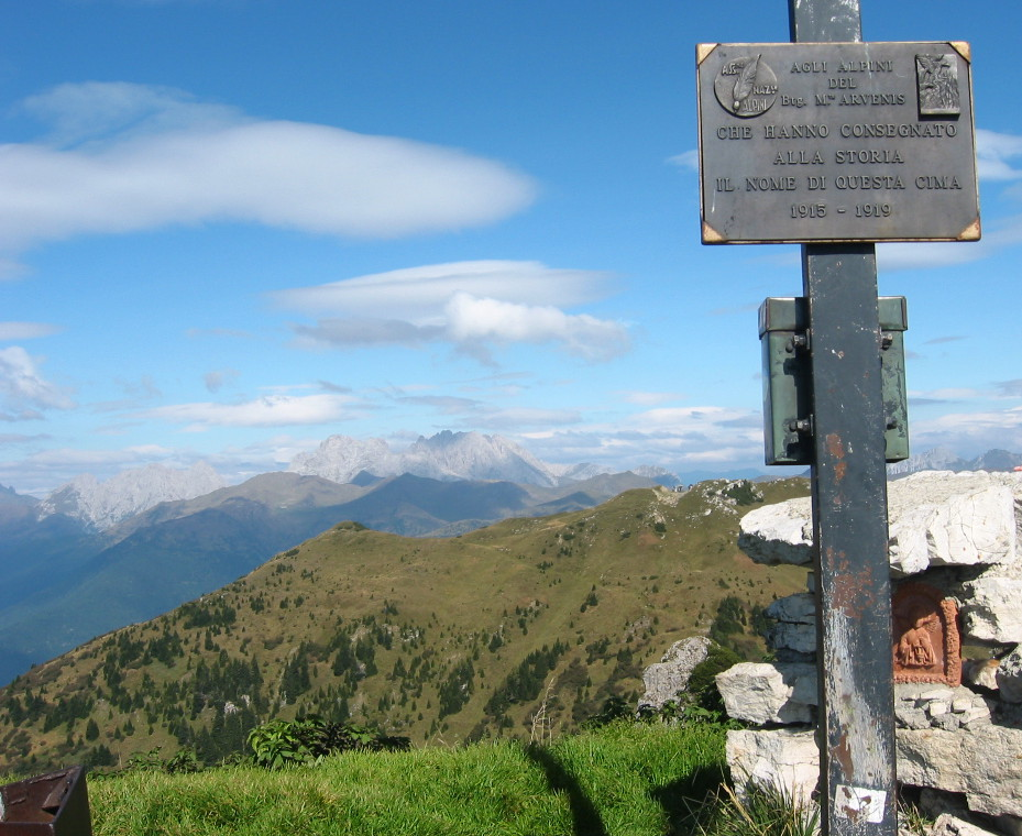 Summit of Monte Arvenis, view towards north to the main crest of the Carnic Alps